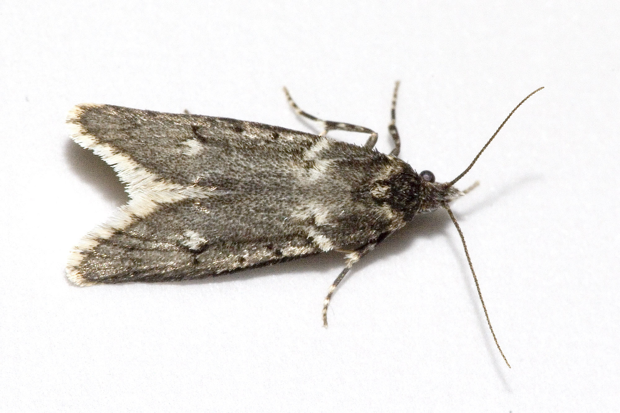 Diurnea fagella (Denis & Schiffermüller, 1775)